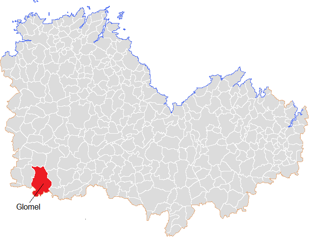 placement Glomel in department Côtes d'Armor (France)